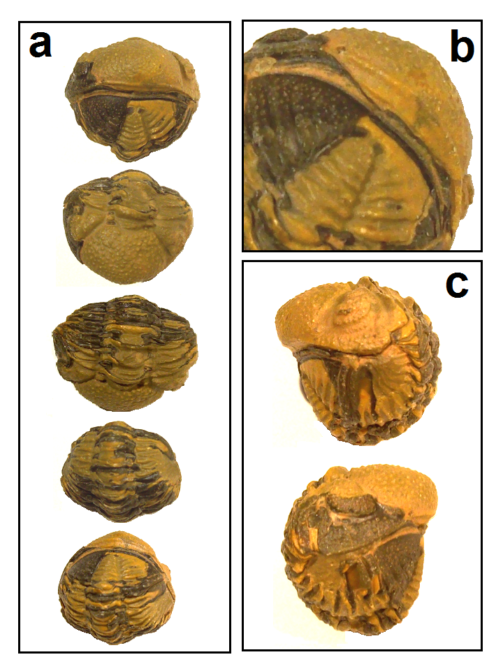 Enrolled Phacops (Devonian, Morrocco); a) the specimen in several dorsal and frontal views; b) particular of the coaptative structures (vincular furrow) present in the cephalic doublure (aimed to lock the seal between the margins of cephalon and pygidium); c) lateral views.